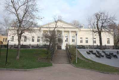 Фасад музея на Гоголевском бульваре, 10